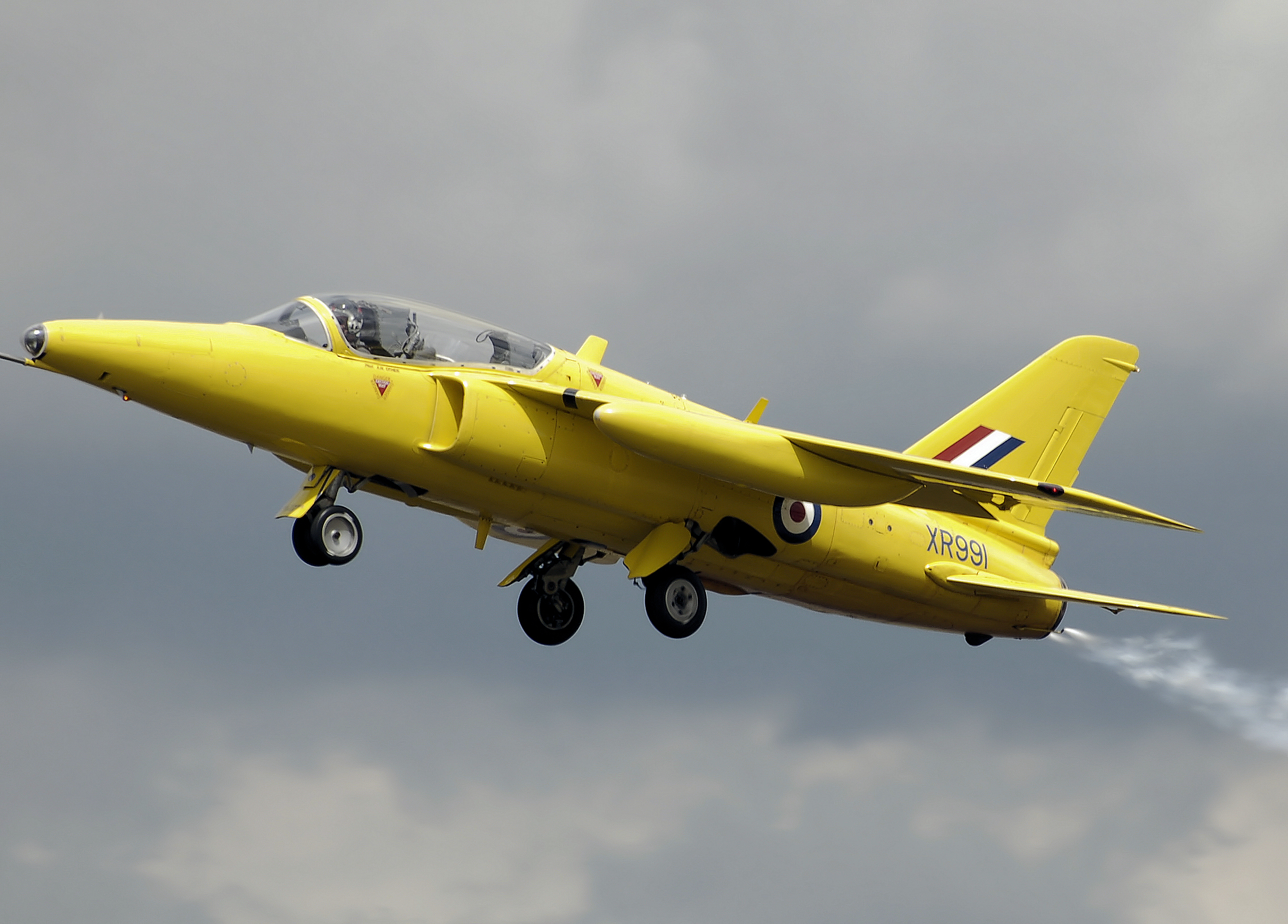 Folland Gnat T.Mk1 (XS102 in RAF service, now XR991/G-MOUR) during a display at Kemble Air Day on 15th June 2008 at Kemble Airport, Gloucestershire, England. Built 1964 for the RAF as XS102, put on the civil register in 1990. This aircraft, kept at Kemble, is painted in the colours of a former RAF display team who used Gnats - the Yellowjacks. The reason for the serial change is that XS102 never served with the Yellowjacks but XR991 did.